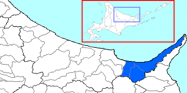 The location of Shari District in Abashiri Subprefecture, Hokkaido Prefecture, Japan.